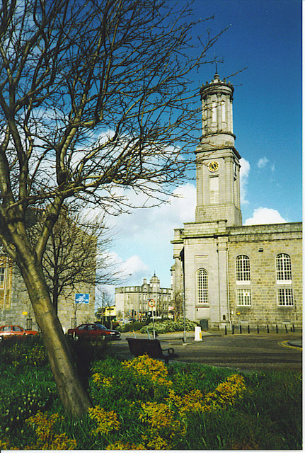 "North Kirk", seen from Queen Street This Aberdeen landmark was built in 1829-30, arguably the best product of architect John Smith. Of course, it is granite and is now the Arts Centre.